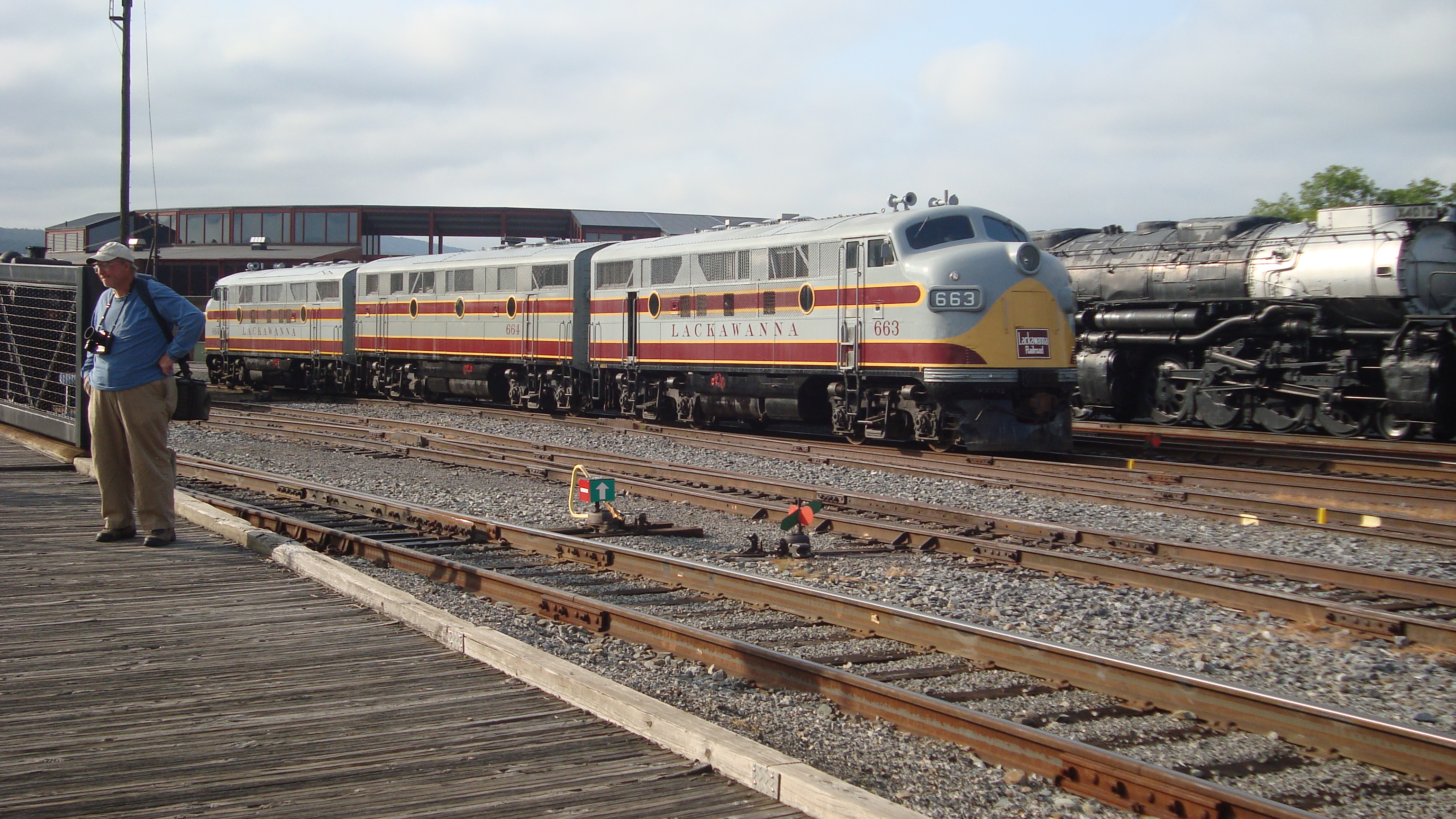 Really ex Bangor & Aroostook and Boston & Maine